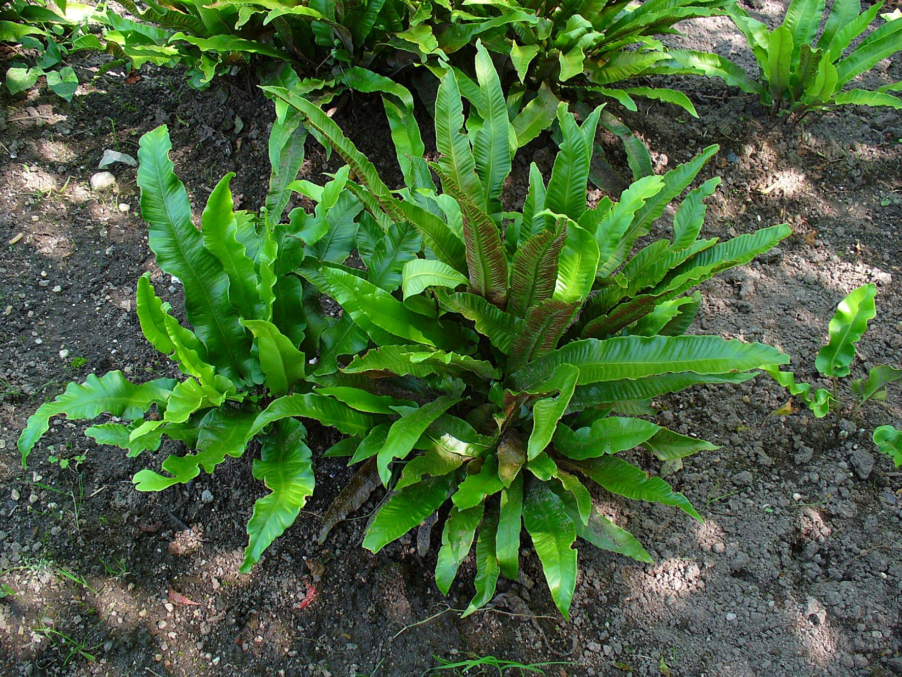 Asplenium scolopendrium, Aspleniaceae, Hart's-tongue Fern, habitus.